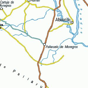 Cómo llegar